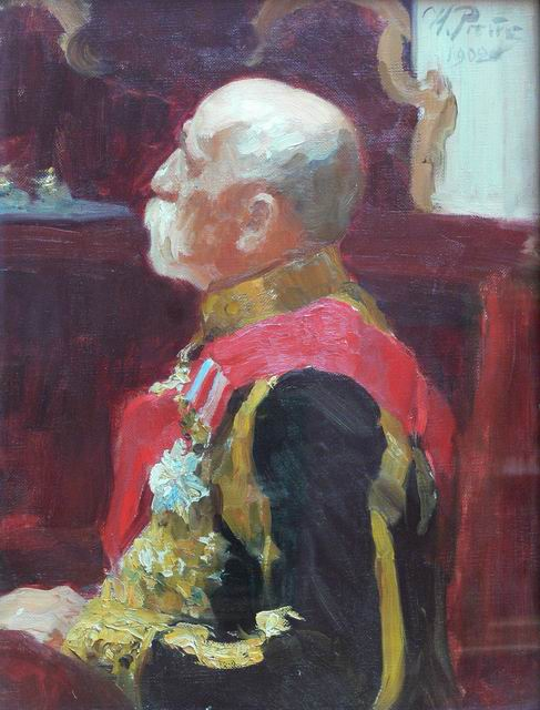 Portrait of member of State Council count Alexander Alekseyevich Bobrinsky. Study for the picture Formal Session of the State Council